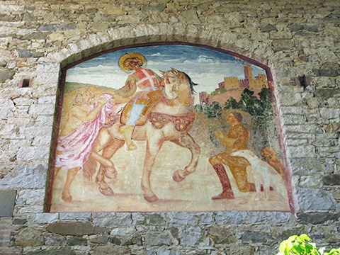 The fresco on the entry tower of the castle of Montalto in Tuscany depicts Saint Martin sharing his cloak with a beggar, with Montalto castle in the background.